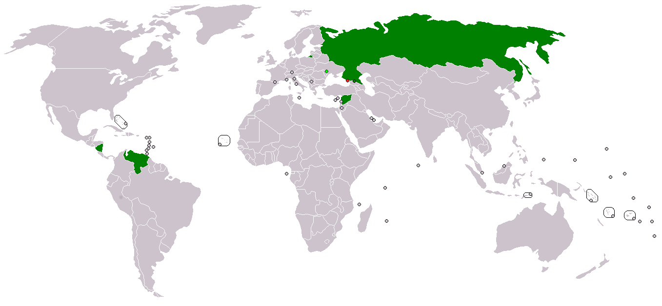 Map of States that maintain diplomatic relations with Abkhazia Abkhazia States that recognize Abkhazia and maintain diplomatic relations with it States that recognize Abkhazia only